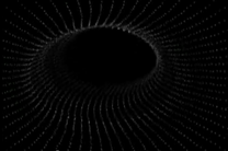 demo effect